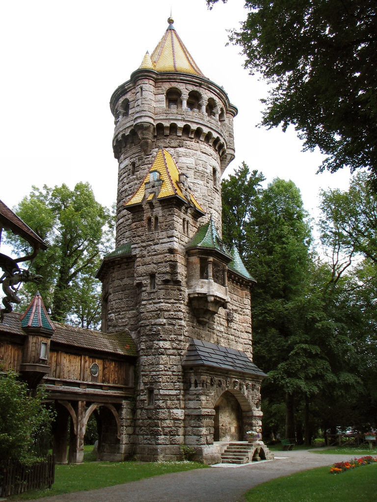 The 30 m high Mutterturm [Mother's Tower] was built by Hubert von Herkomer in 1884-1888, to honour his mother. To which extent Henry Hobson Richardson, the architect of Lululaund, was involved, is uncertain. The tower's sidehouse, formerly a residential building, houses the Landsberg Herkomer Museum since 1990.